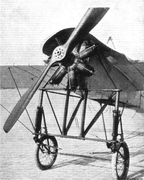 Original caption: Front view of the new Bleriot racer (No. XXVII), showing the reduced landing carriage, the overhung mounting of the engine and propeller, and the peculiarly shaped cowl which prevents the lubricating oil from reaching the pilot. Bleriot, such a strong believer in mounting the engine by bearings on both sides, has, it will be noted, at last abandoned that method in favour of one which renders the motor considerably more accessible. It will be observed that a very slight dihedral angle is employed on this new model, and that the main body has a decided taper towards the front to minimise head resistance.